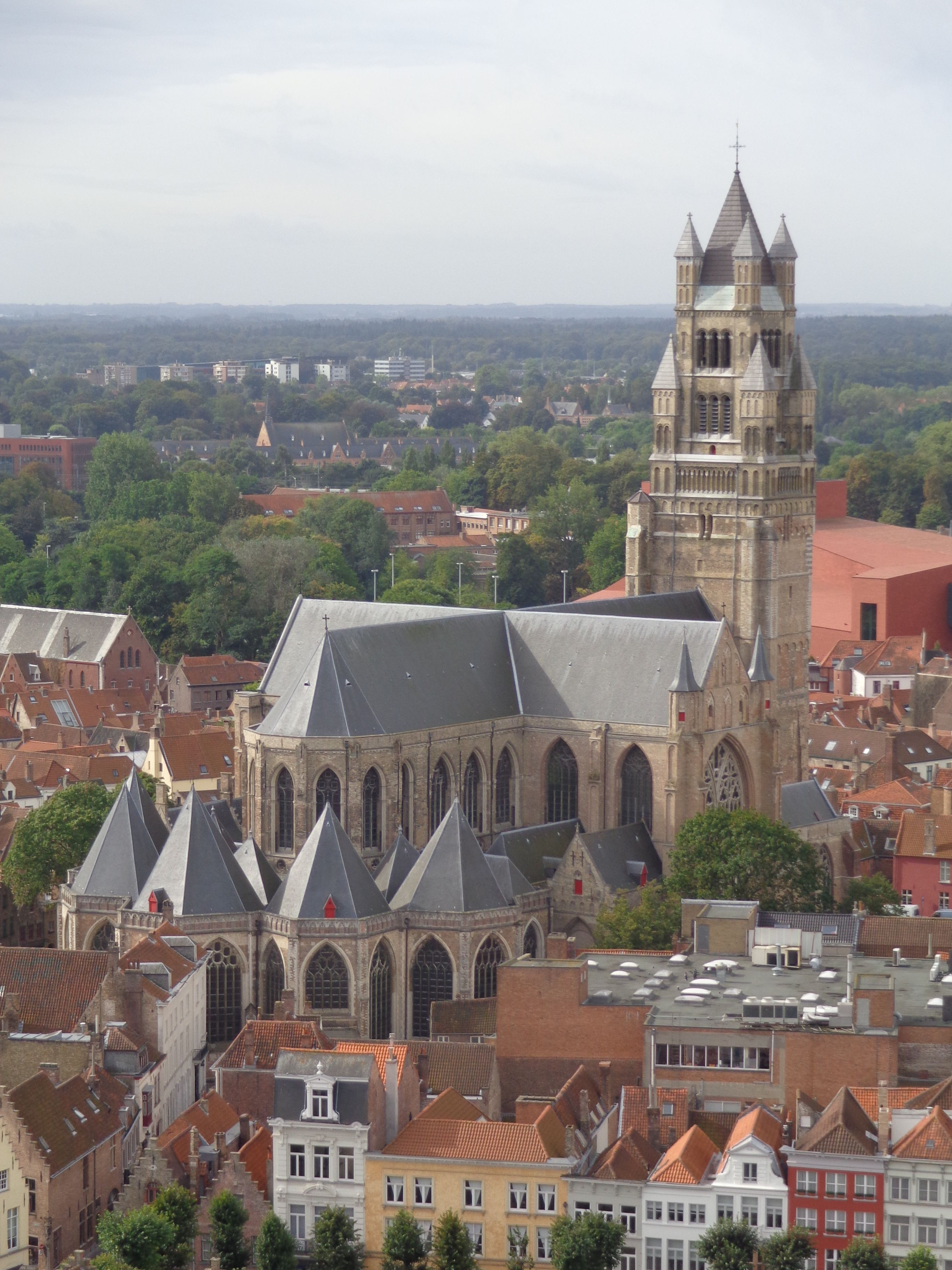 St. Salvator's Cathedral (Brugge)